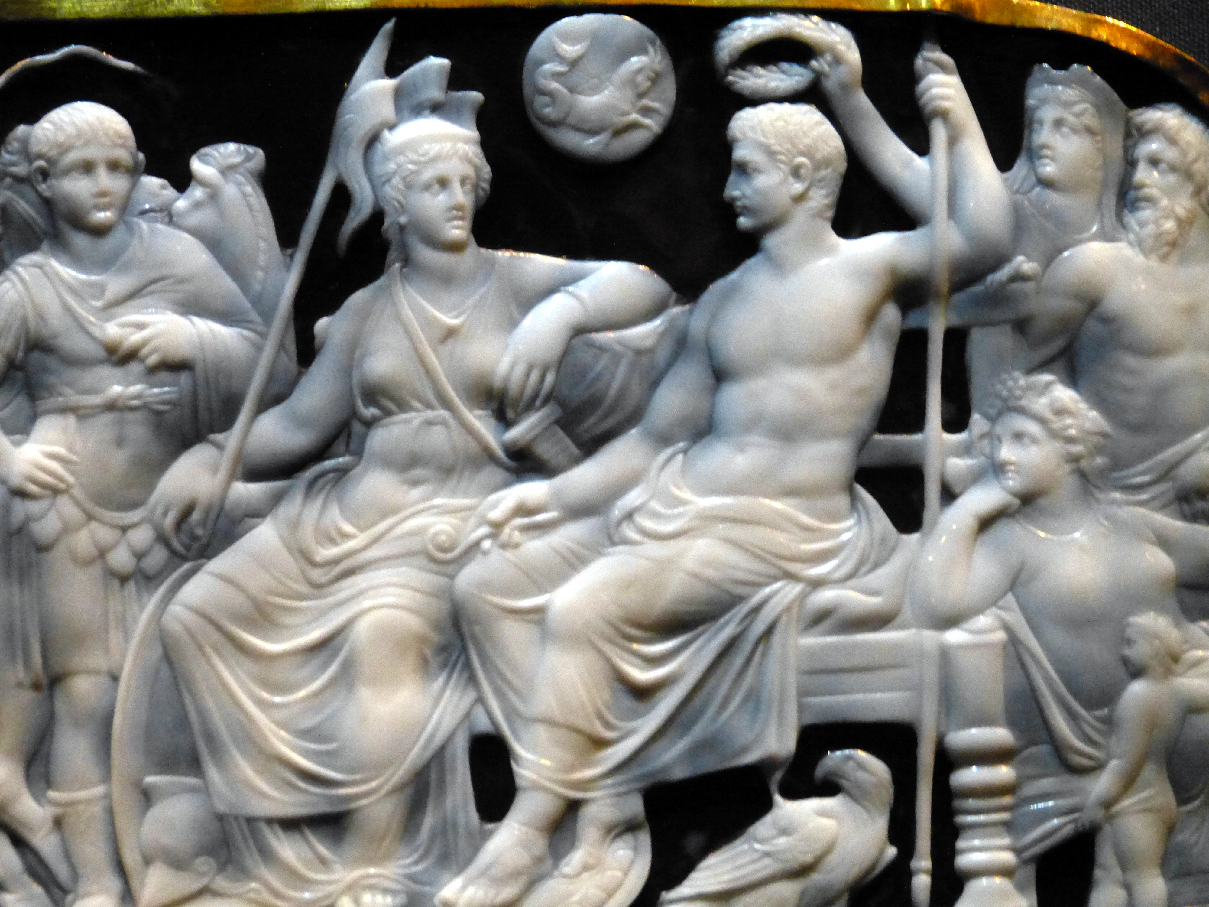 Vienna ( Austria ). Kunsthistorisches Museum: Ancient Roman Gemma Augustea ( 9-12 AD ) made of sardonyx - detail.